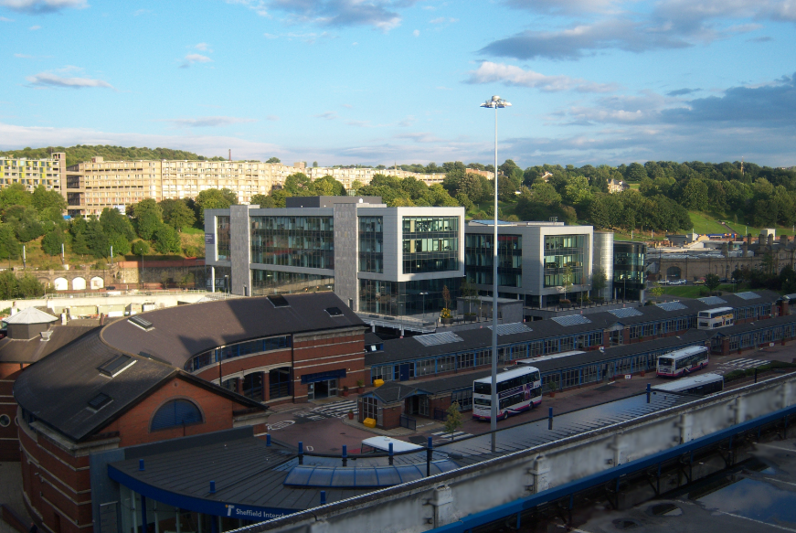 Sheffield Interchange